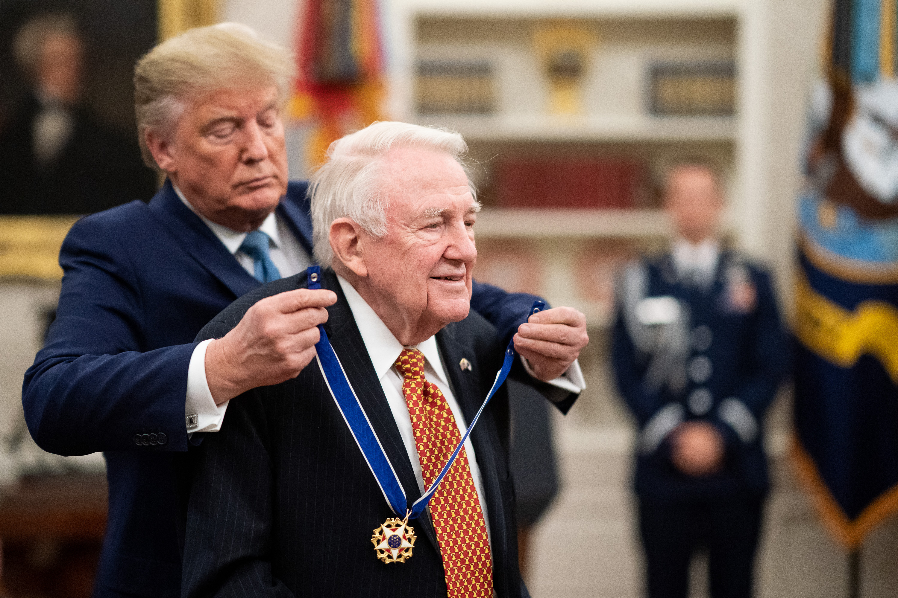 President Donald J. Trump presents the Presidential Medal of Freedom, the nation’s highest civilian honor, to former Reagan administration Attorney General Edwin Meese III, Tuesday, Oct. 8, 2019, in the Oval Office of the White House. (Official White House Photo by D. Myles Cullen)